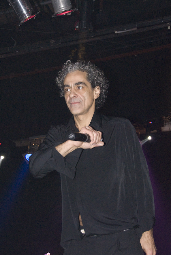 Melingo at the Central, Montevideo on august 16 2008